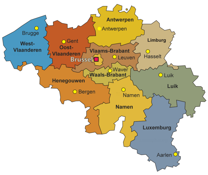 Belgian provinces (Dutch).